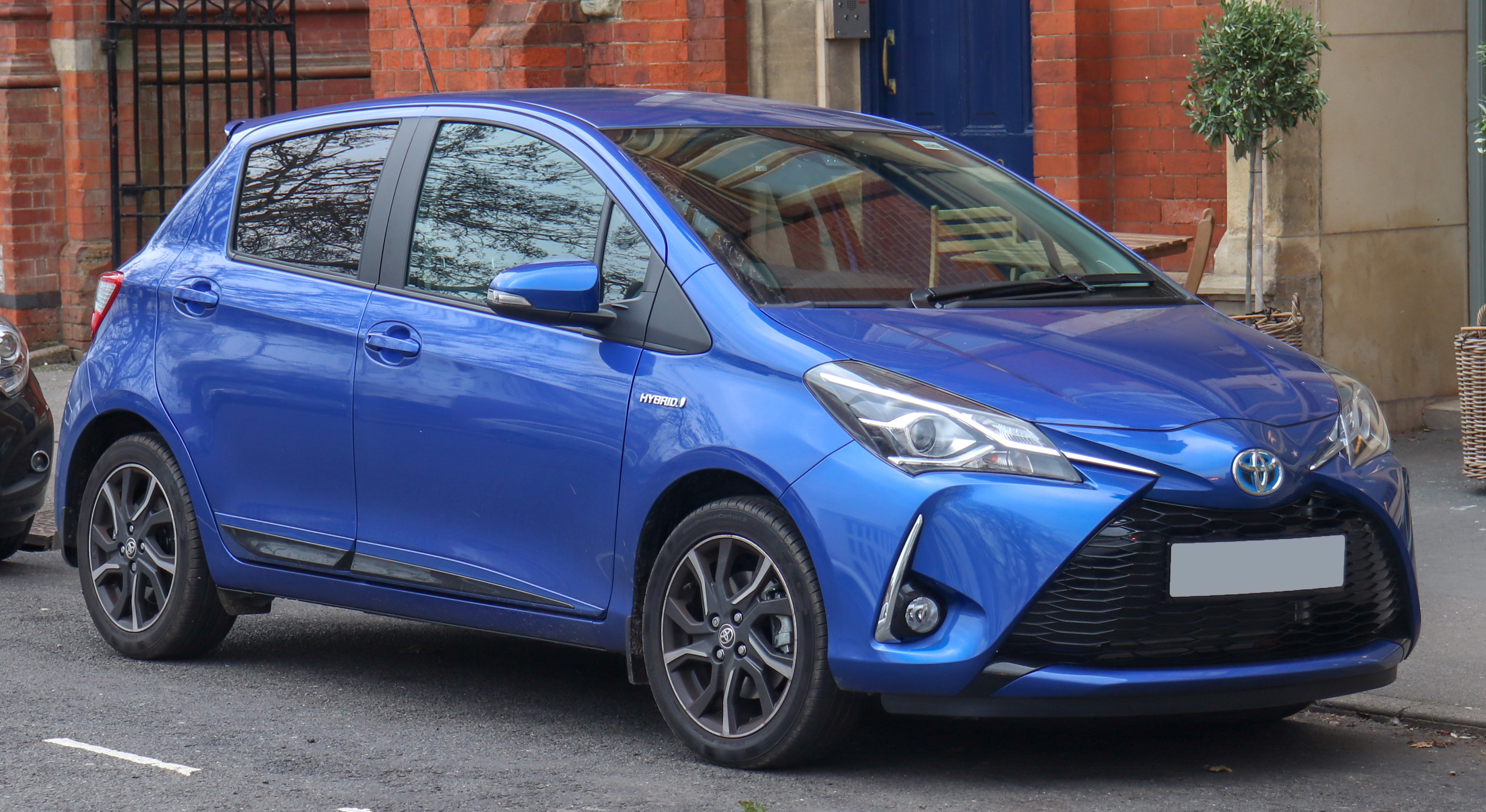 2018 Toyota Yaris Design VVT-I HEV CVT 1.5 Front Taken in Leamington Spa